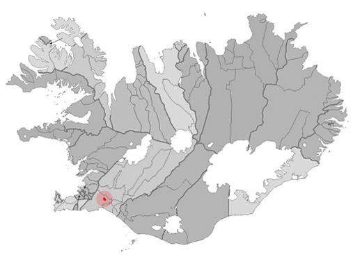 Based on Municipalities of Iceland.png.